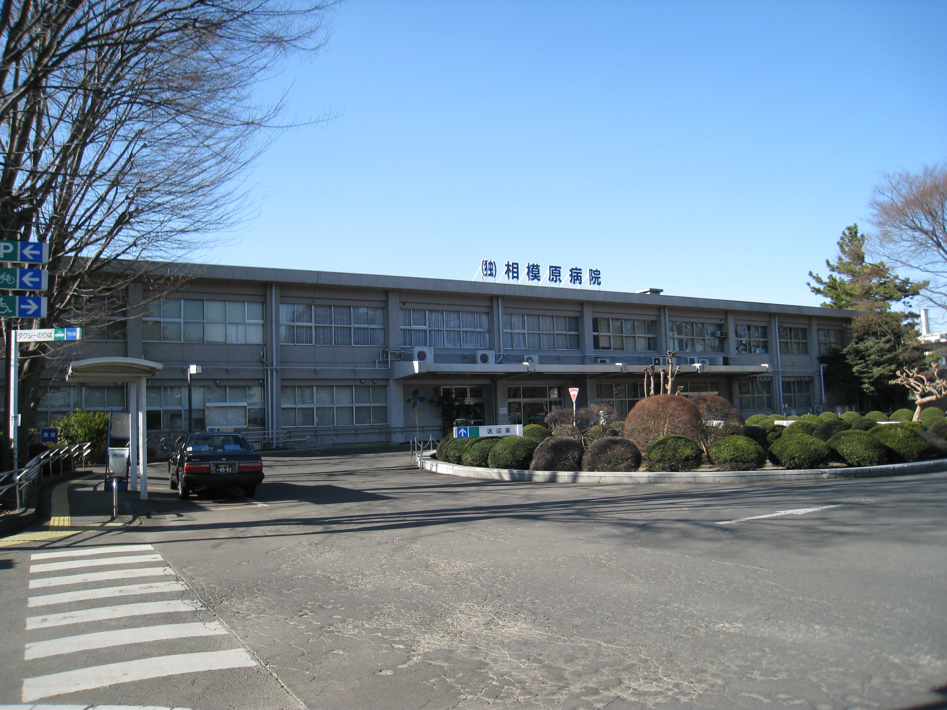 National Hospital Organization Sagamihara National Hospital